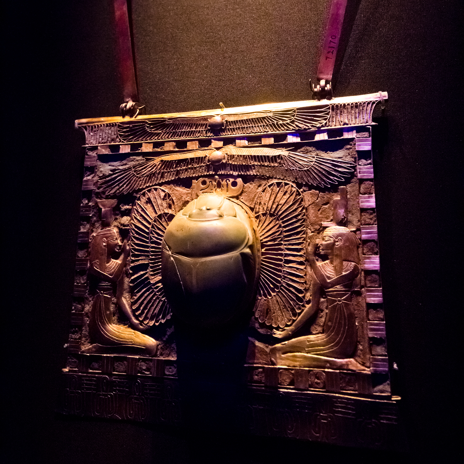 This is the pectoral for the shortlived 22nd dynasty Egyptian king Heqakheperre Sheshonk or Sheshonq II which was discovered from his intact burial at Tanis in 1939 by Dr. Pierre Montet. This pharaoh is today believed by Egyptologists to have ruled Egypt for 2 or 3 short years from Tanis during the early 9th century BCE. This photo was taken at the King Tut exhibition at the Pacific Science Center in Seattle, Washington State, USA.